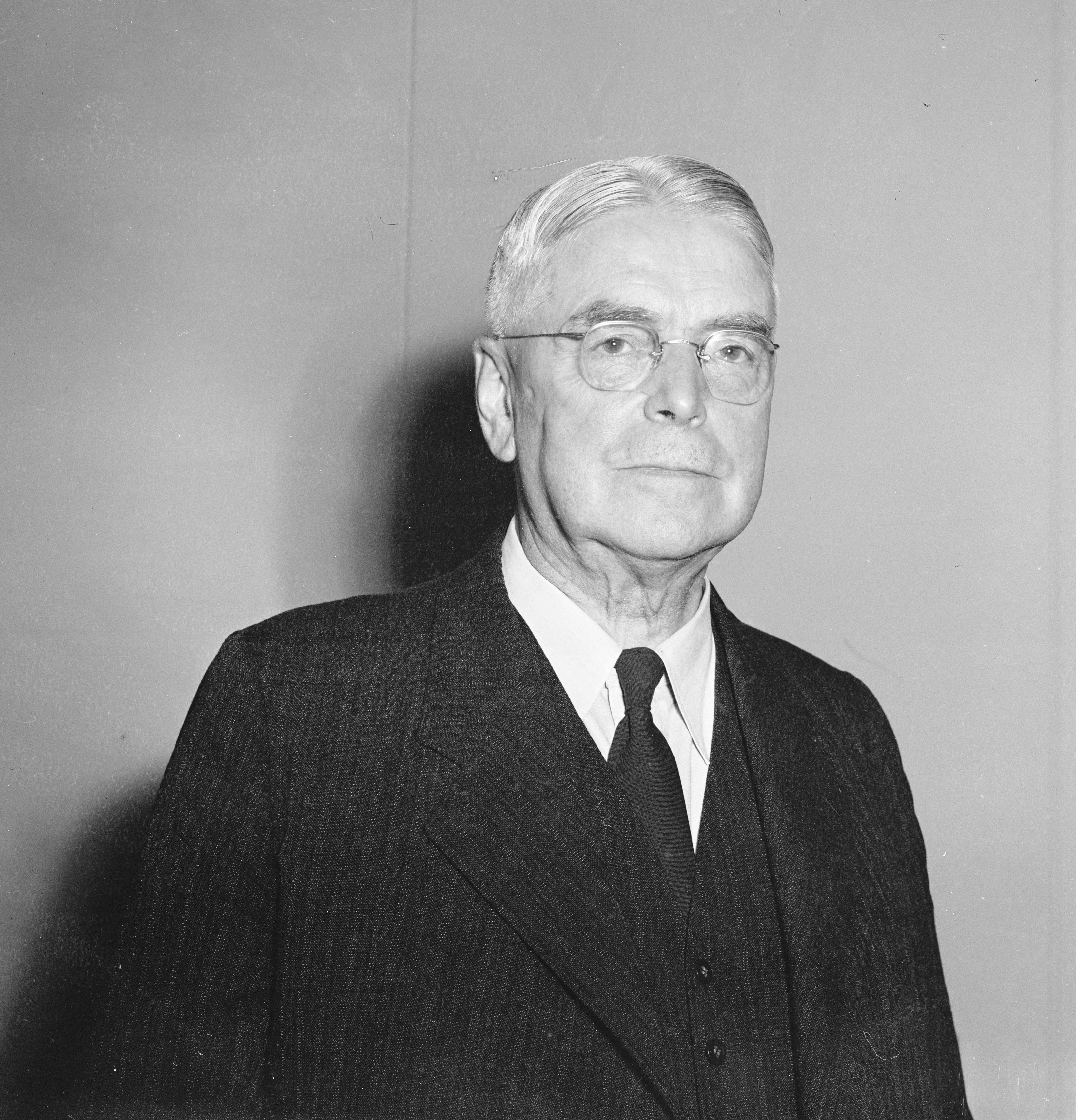 Walter Nash photographed circa 19 January 1951 by an Evening Post staff photographer.